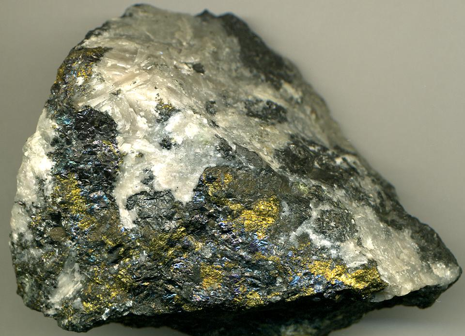 Calciocarbonatite from the Phalabowra Complex of South Africa. This rock is made of calcite but it also contains iron and copper minerals. The whitish-grey mineral is calcite, the brassy-gold mineral is chalcopyrite, the black mineral is magnetite and the bluish mineral is bornite. This rock is 86 millimetres across at its base. It is from a copper mine on the Loolekop Pipe. This rock is of mid-Paleoproterozoic age (2.06 billion years old).